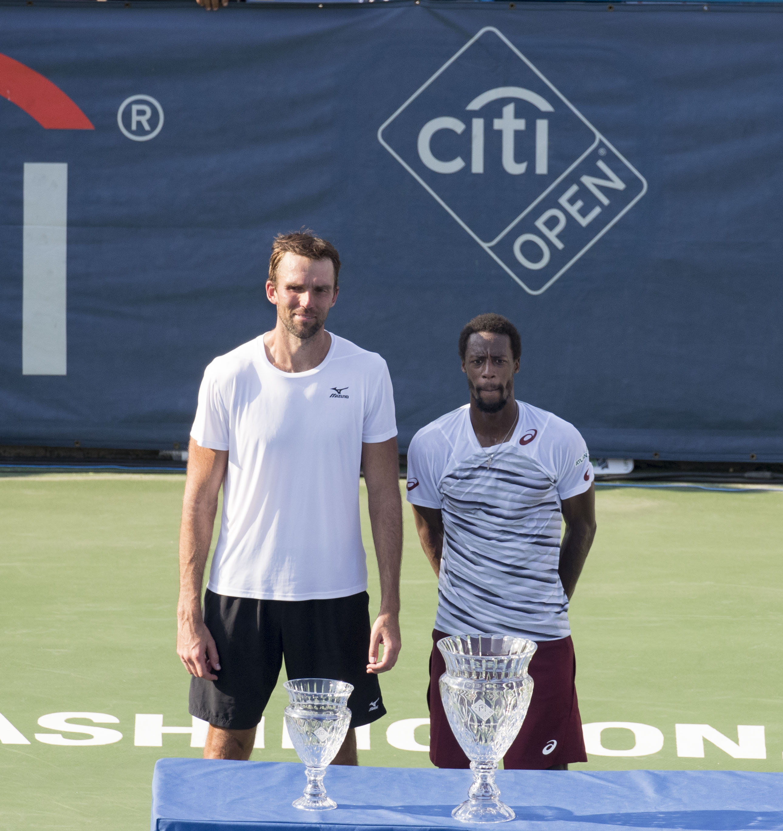 2016 Citi Open Finals 7/24/16